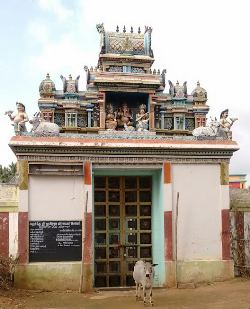 Thanjavurpillayarpattivinayakartemple தஞ்சாவூர் பிள்ளையார்பட்டி விநாயகர் கோயில்